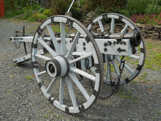 gonne